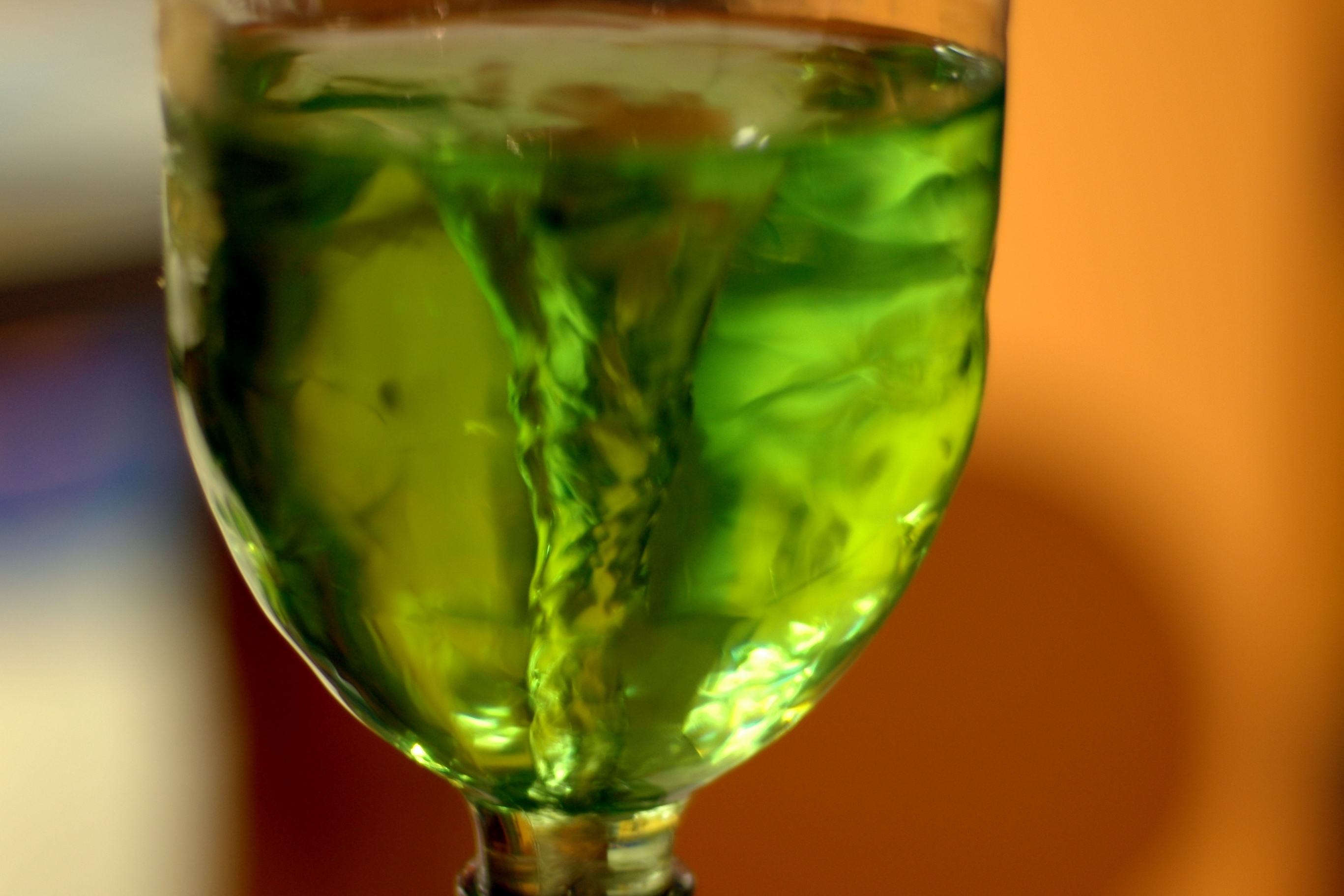 Tornado in a Bottle